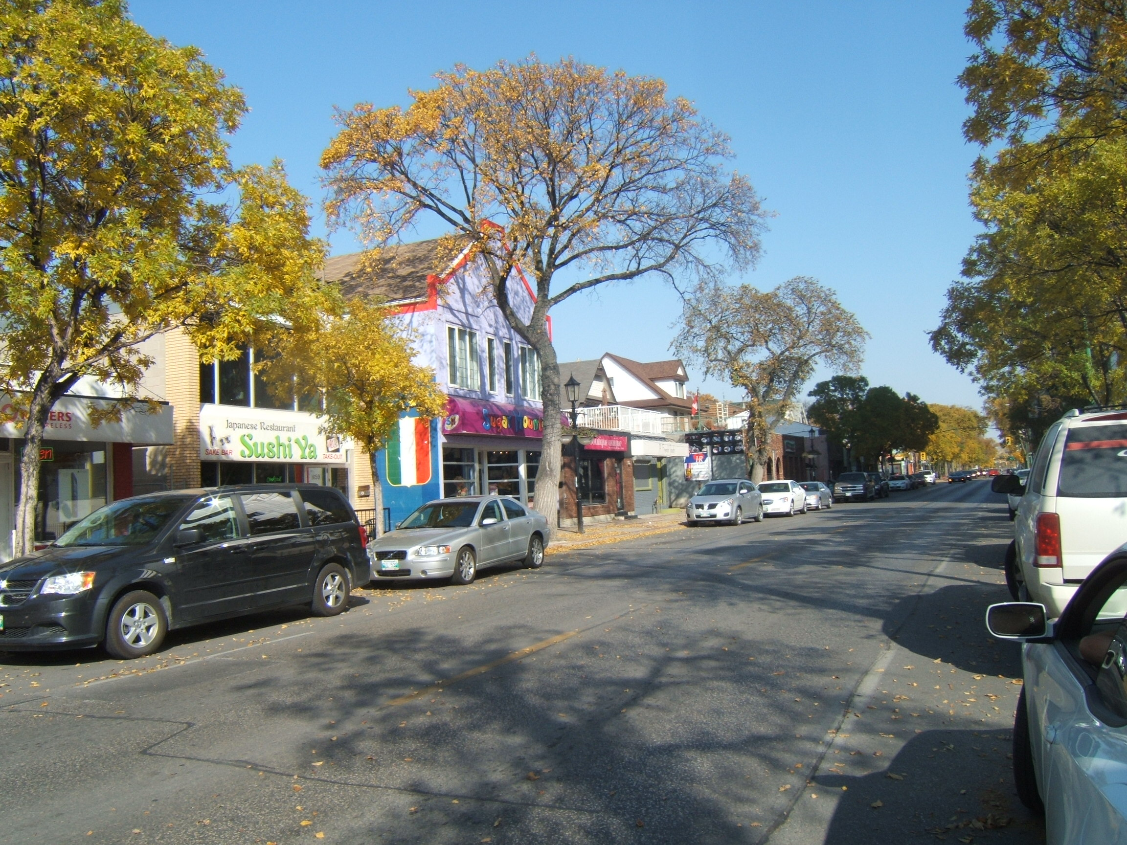 Cordyn Avenue, Winnipeg